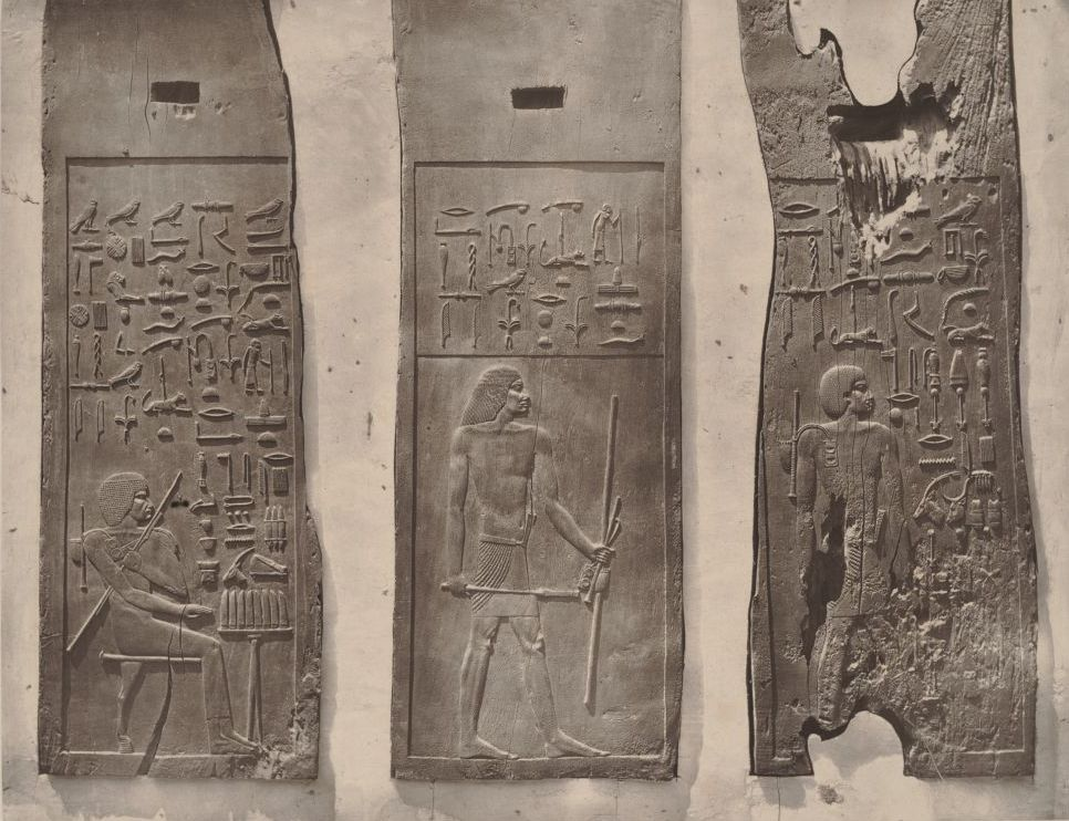 Tablets from the Ancient Egyptian Empire. Black-and-white photograph.The physician Hesy-Ra, his 6 wooden panels.